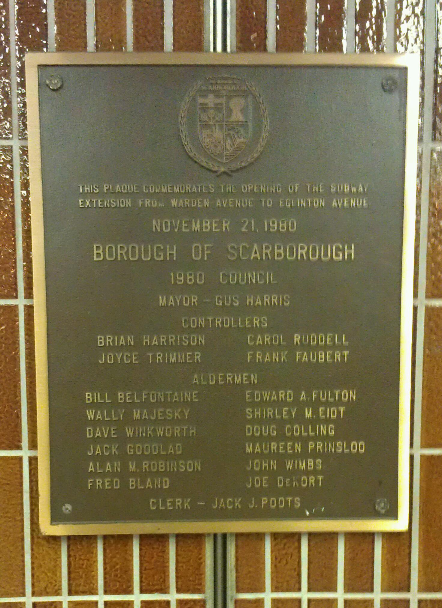 Plaque commemorating the opening of the subway extension from Warden Avenue (Warden Station) to Eglinton Avenue (Kennedy Station) on the Bloor-Danforth line.